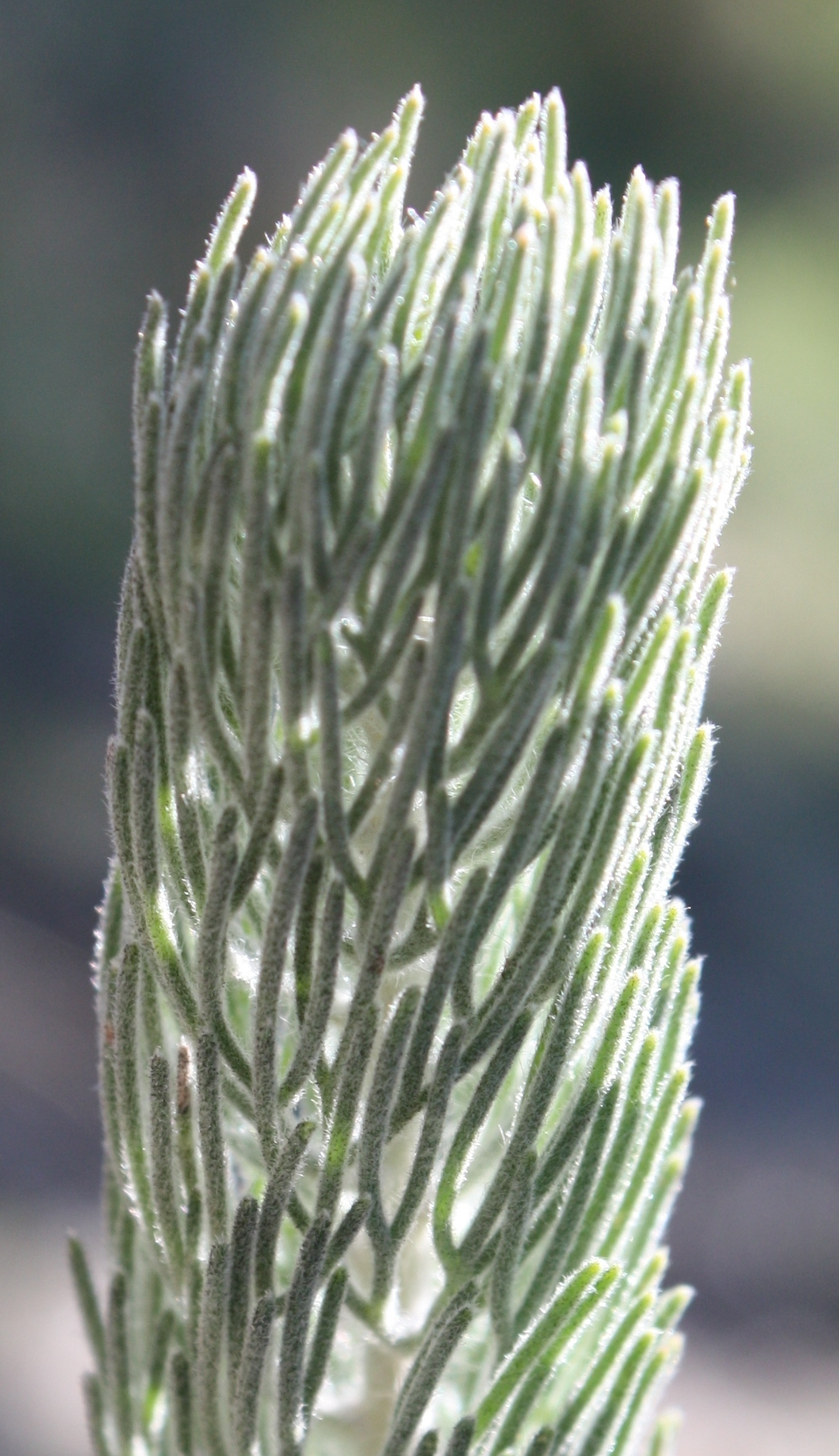 Foliage of Adenanthos cygnorum. Photo taken at Wireless Hill Park, Perth, Western Australia